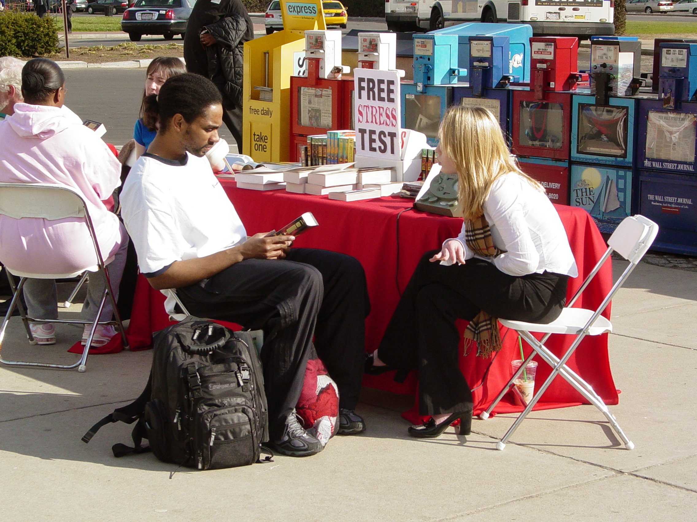 Scientologists conduct a demonstration regarding Dianetics at Union Station in Washington DC.